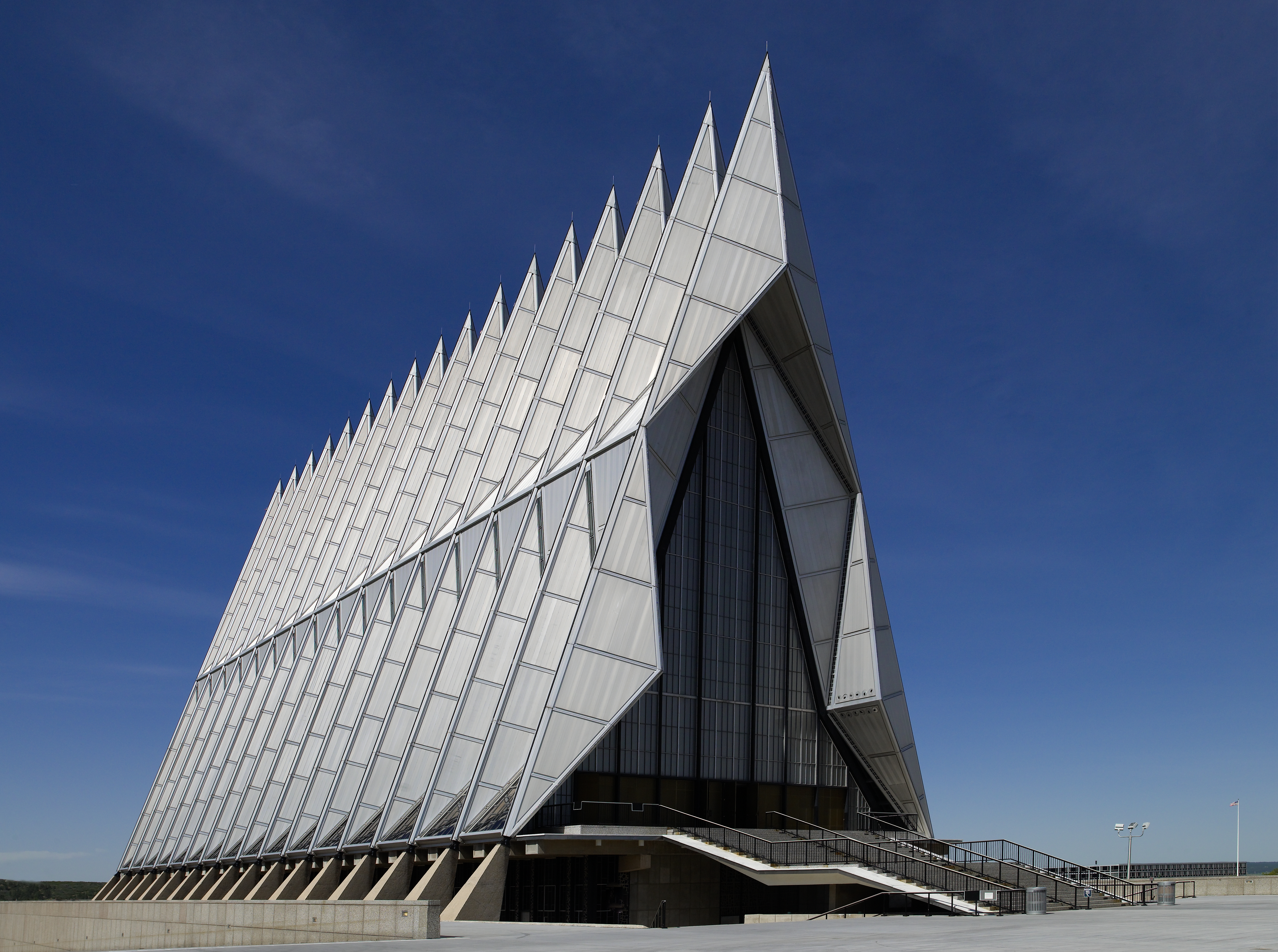 The Air Force Academy Chapel was built in 1956 - 1962 by architect Walter Netsch with Skidmore, Owings and Merrill. Building is Expressionist Modern style.